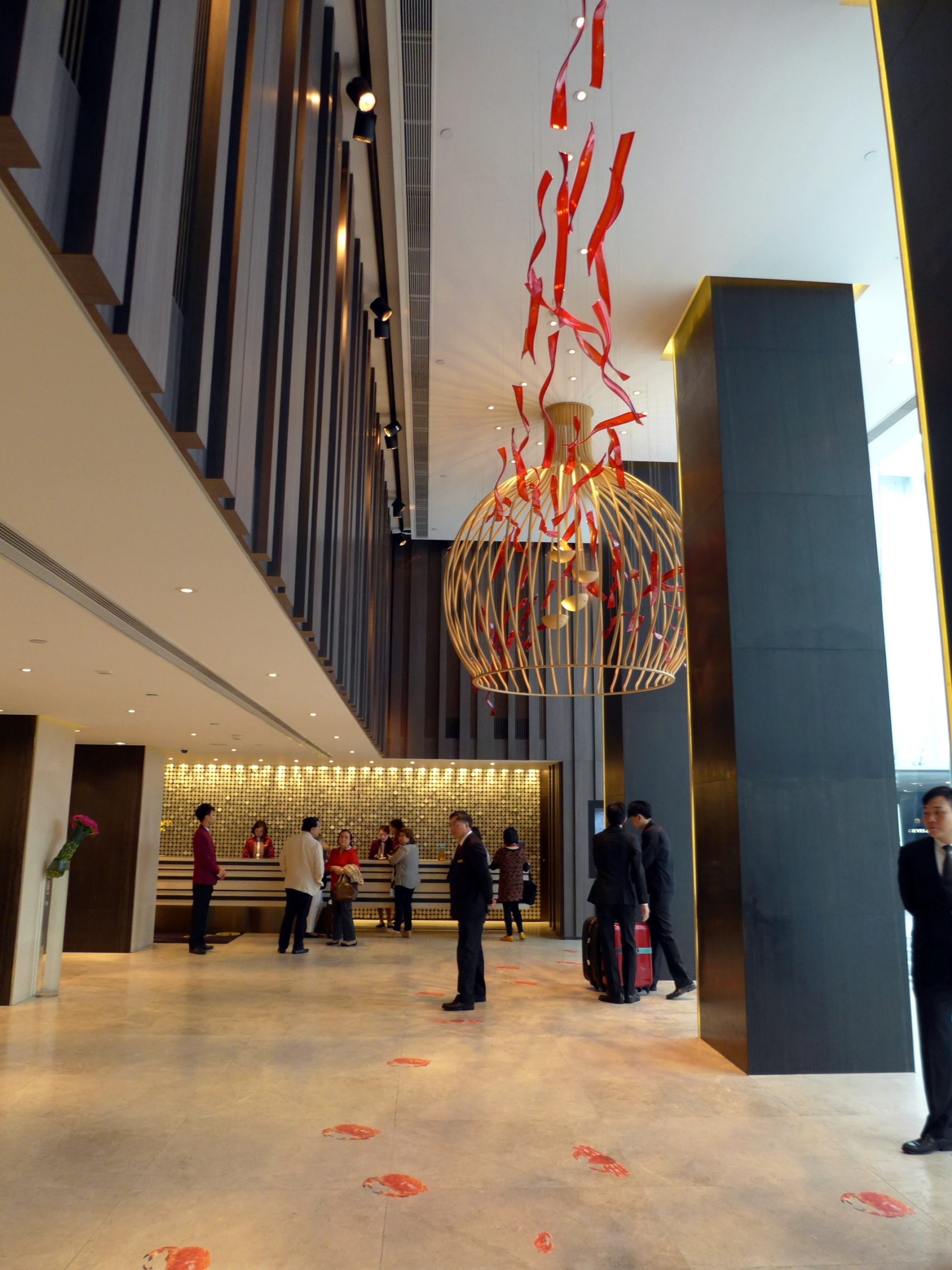 The Marco Polo Gateway Lobby